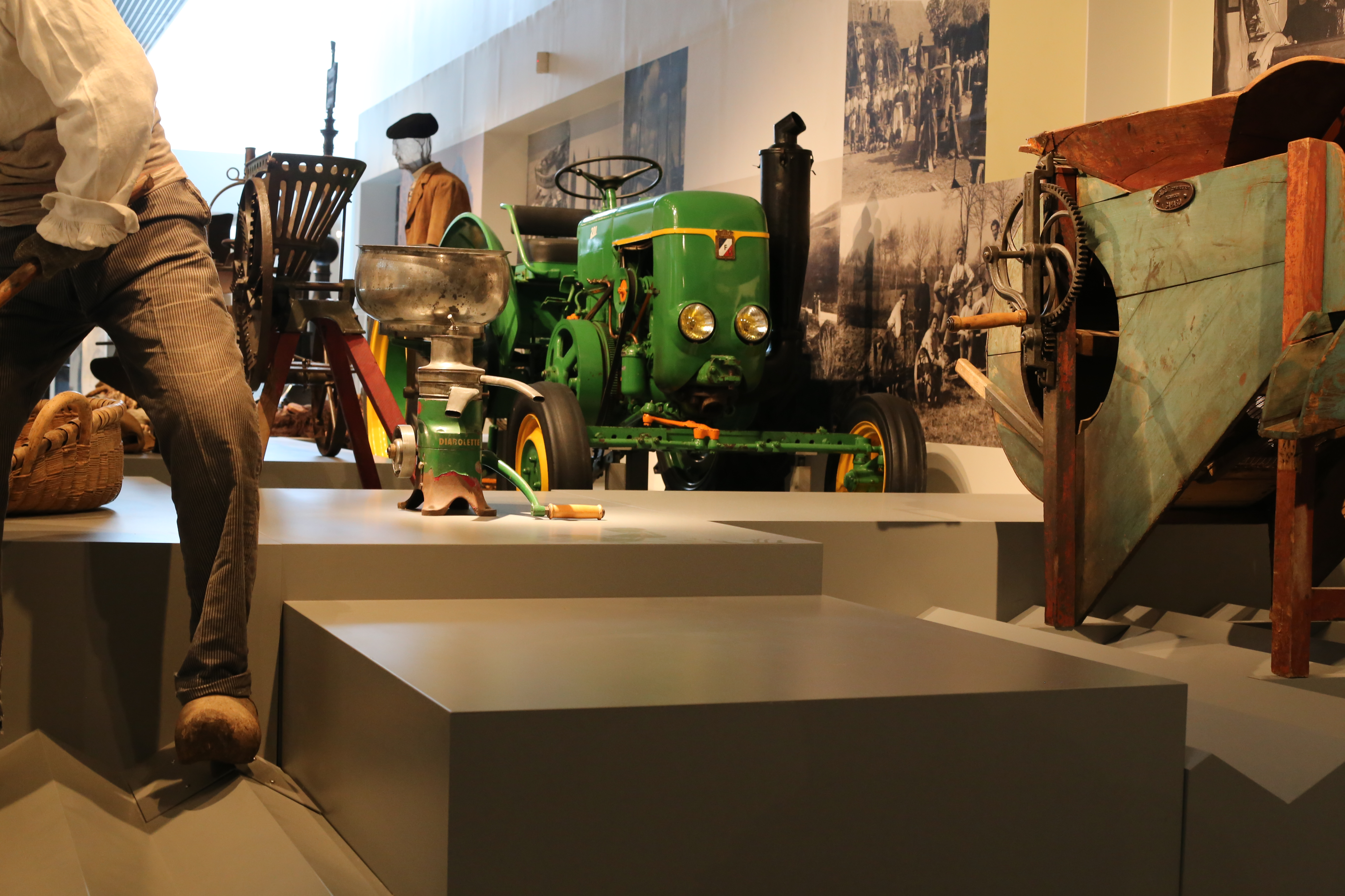 Showcase « Une Bretagne... multiple » in Museum of Brittany, Rennes.